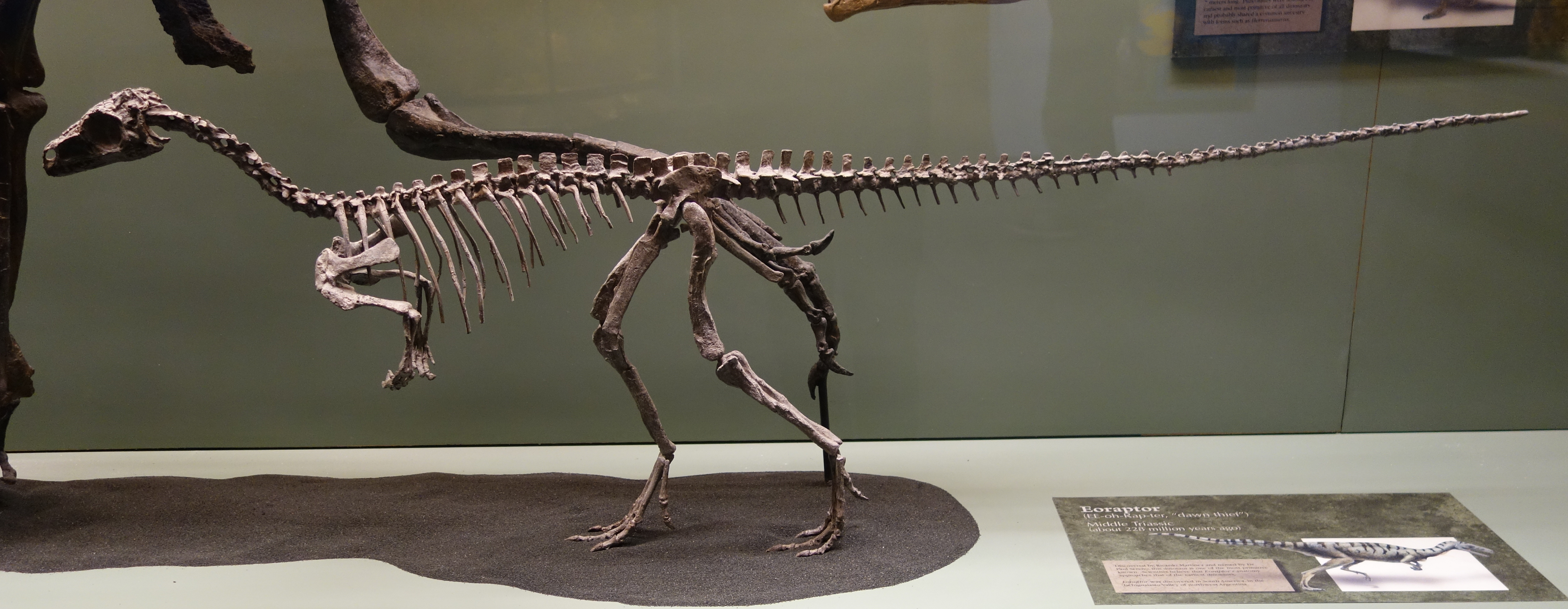 Eoraptor mounted cast, on display at the Museum of Ancient Life, Utah.